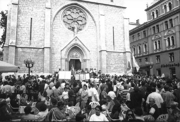 Peace demonstration in front of the cathedral of Sarajevo, Bosnia, September 1991.